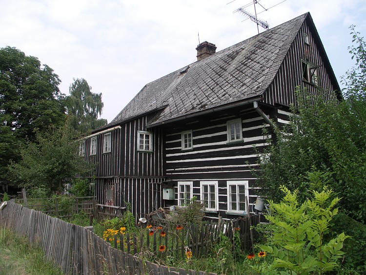 Dwelling in Velenice, Česká Lípa District, Czech Republic.